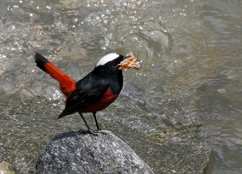 White-capped Water Redstart Chaimarrornis leucocephalus at Kullu District of Himachal Pradesh, India. It was taken at Pulga, on way back from Sar Pass trek in Himachal. It was nesting in a hole alongside the stone walls constructed for the bridge & got hold of this butterfly to possibly feed the chicks.